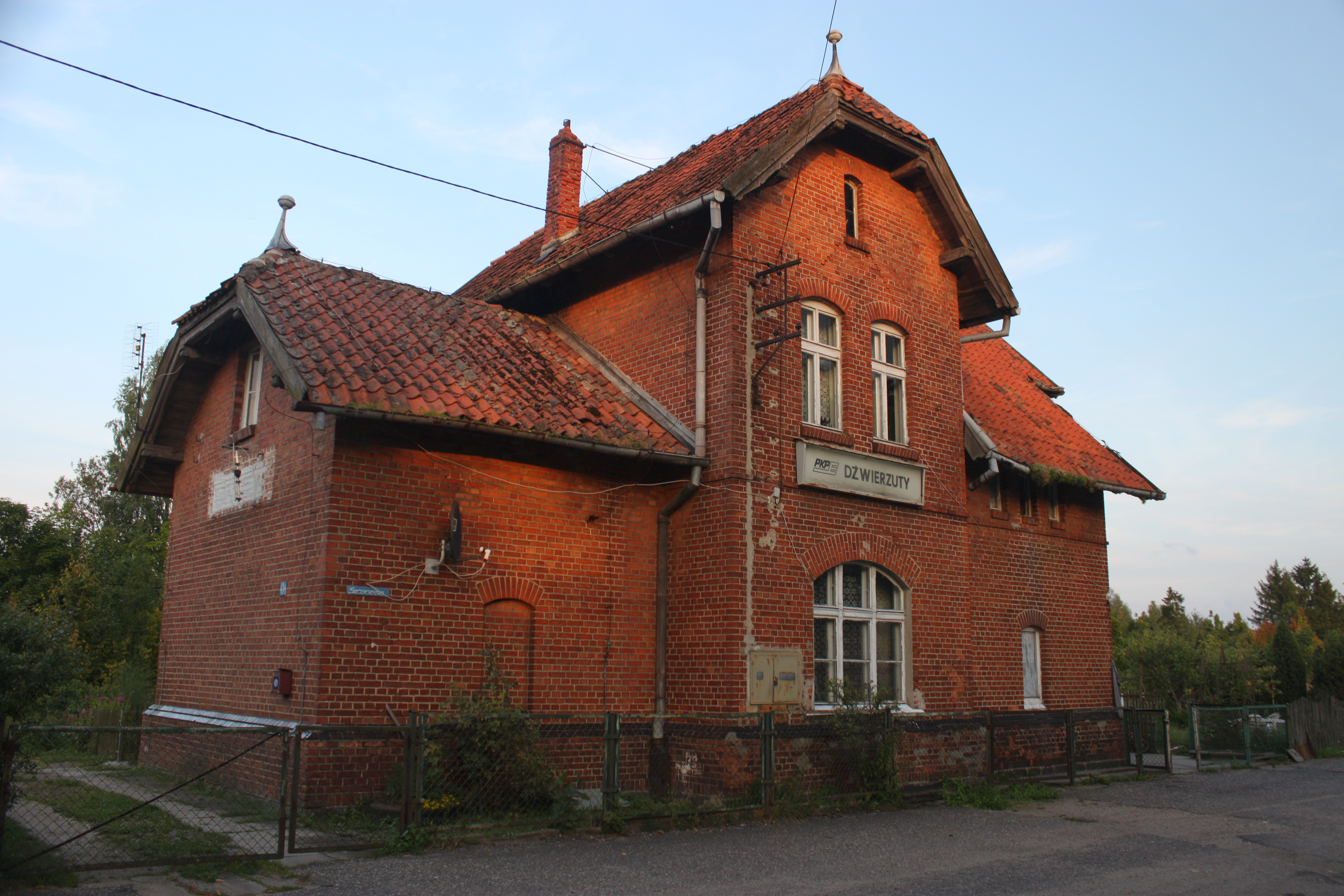 Old railway station in Dźwierzuty.